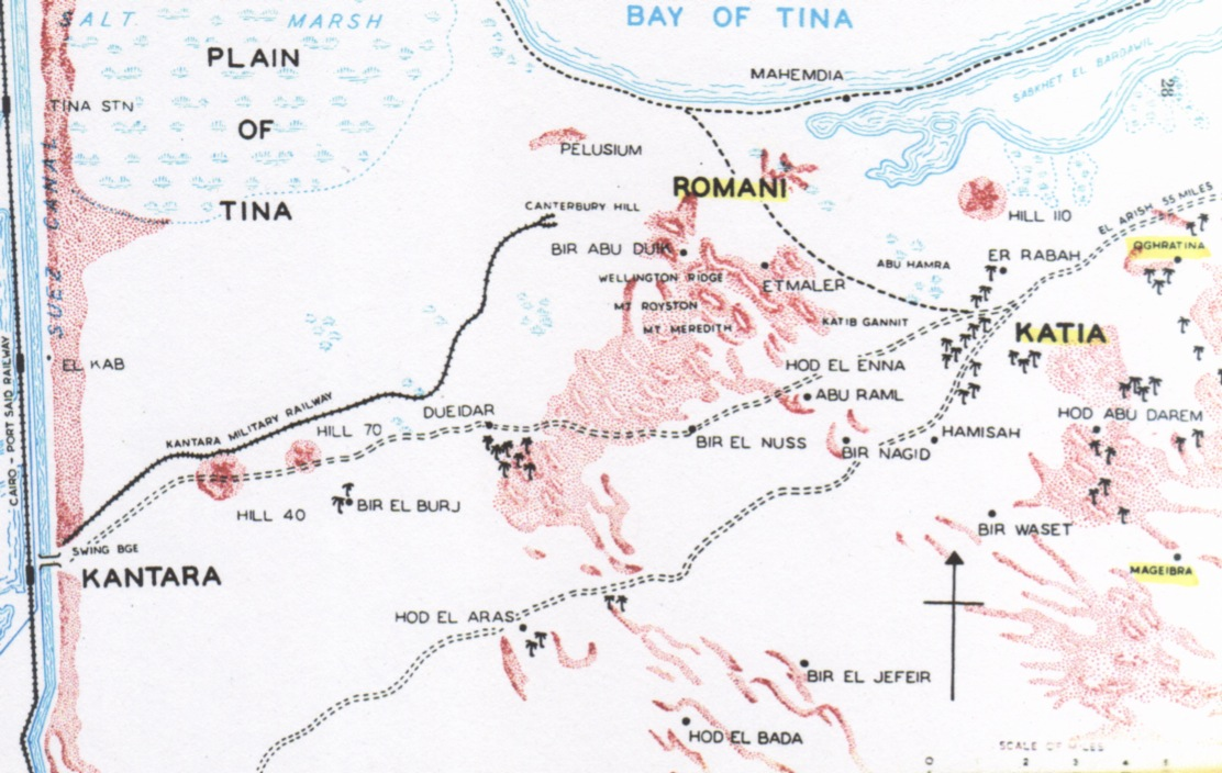 Maps showing Katia - Kantara region, Sinai, in early 1916.